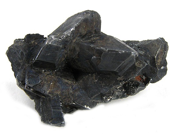 Bournonite Locality: Georg Mine, Willroth, Altenkirchen, Wied Iron Spar District, Westerwald, Rhineland-Palatinate, Germany (Locality at ) This is an old German bournonite specimen, SO hard to obtain - actually a specimen of solid bournonite with three sharp 1.5-cm crystals on top. There is a bit of edge wear, but it is minor. Despite the new bournonites coming from China, these old European ones are still greatly prized! This would almost certainly date to teh late 1800s and a piece with crystals of such size and sharpness is rare on the market. 4.3 x 3.0 x 2.3 cm